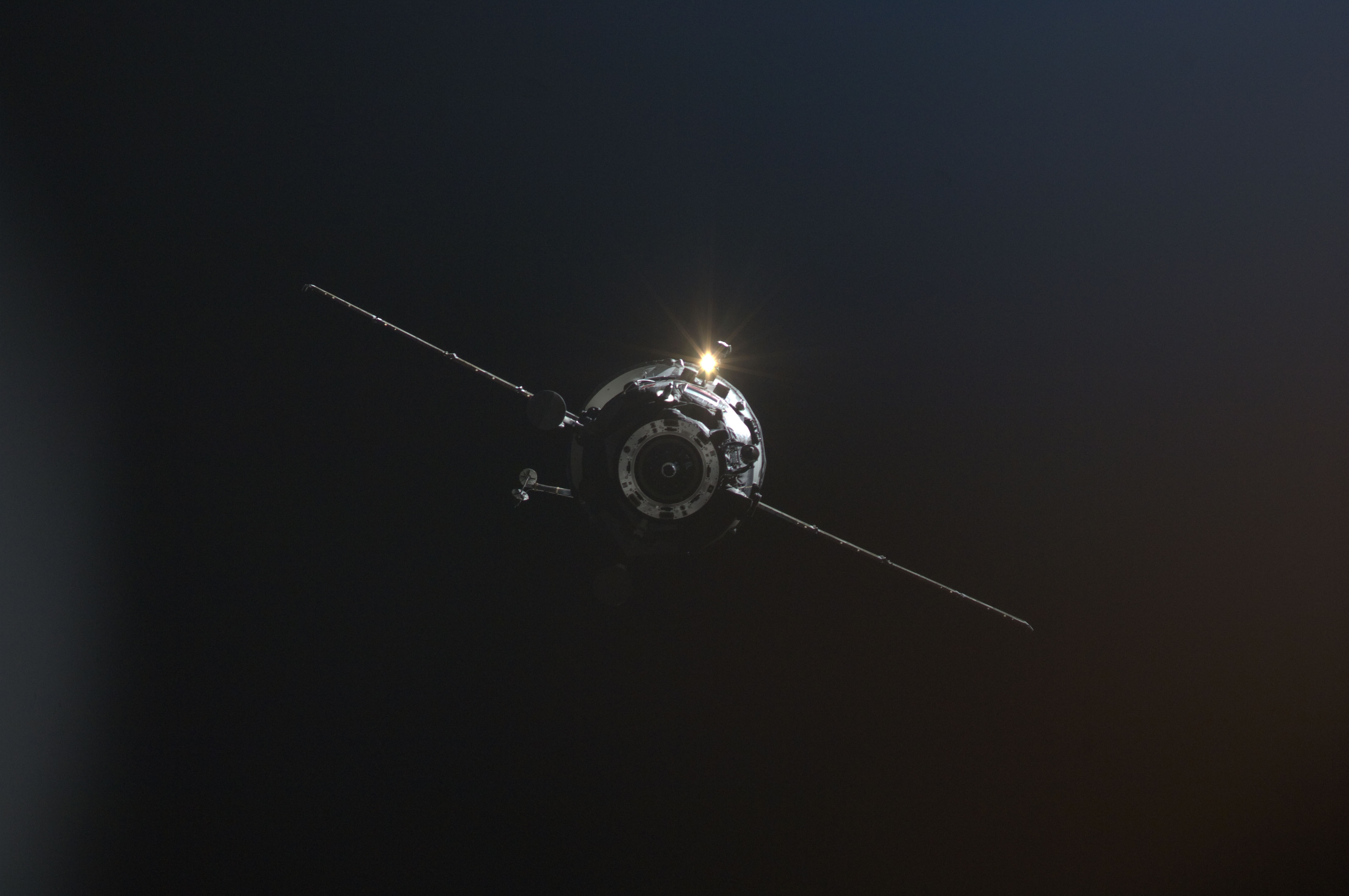 An unpiloted ISS Progress resupply vehicle approaches the International Space Station, bringing over two tons of food, fuel and supplies for the Expedition 22 crew members aboard the station. Progress 36 docked to the aft port of the Zvezda Service Module at 10:26 p.m. (CST) on Feb. 4, 2010, after a three-day flight from the Baikonur Cosmodrome in Kazakhstan.